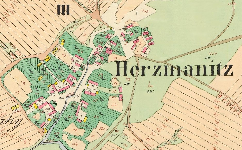 Rouchovany-Heřmanice. Part of Imperial Imprint of the Stable Cadastre from 1825